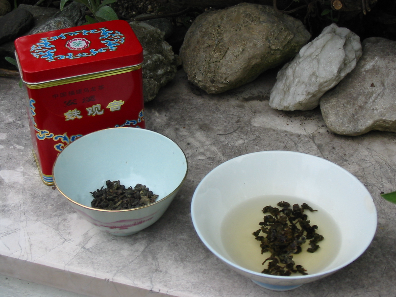 Tin Kuan Yin commercial packing, leaves at infusion in a bowl